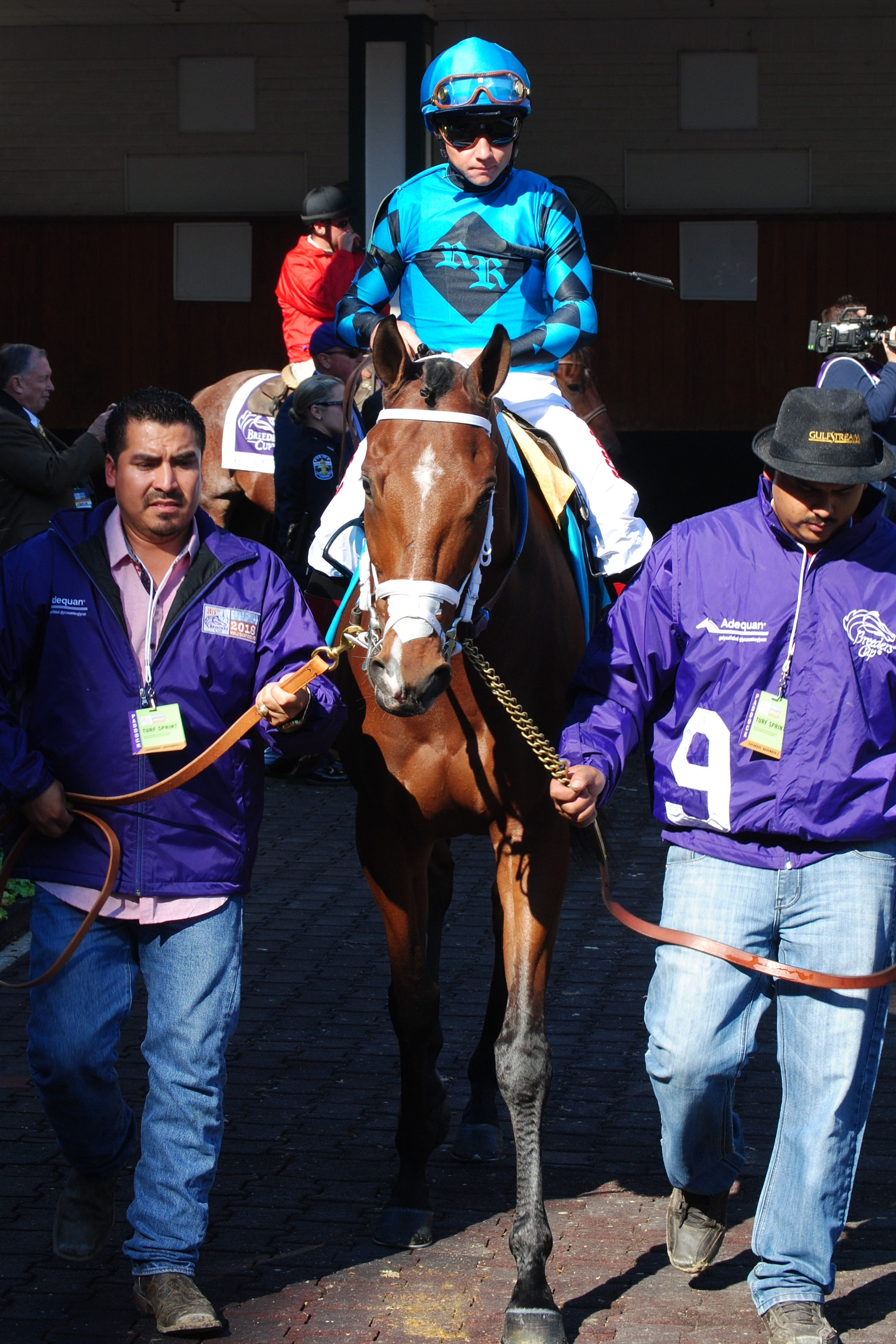 Stormy Liberal and jockey Drayden Van Dyke prior to the 2018 Breeders' Cup Turf Sprint